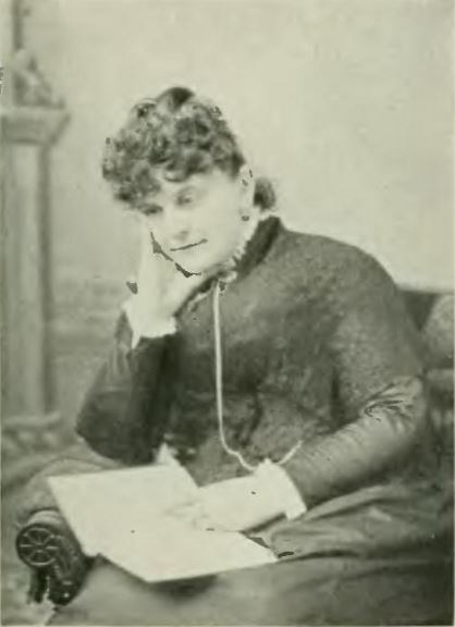 one of the Women of the Century